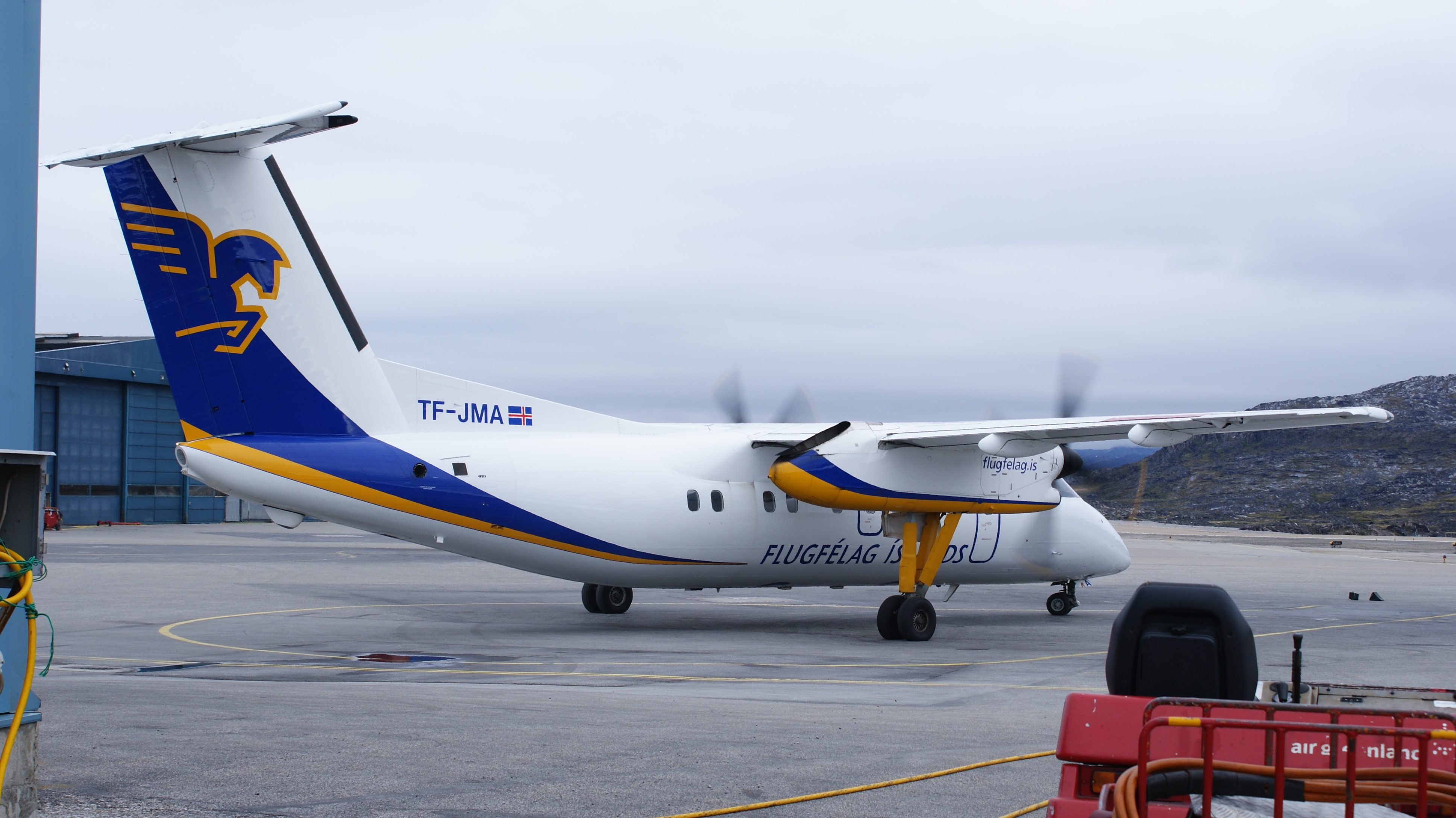 Flugfélag Íslands Bombardier Dash-8 106 at Ilulissat Airport, Greenland.